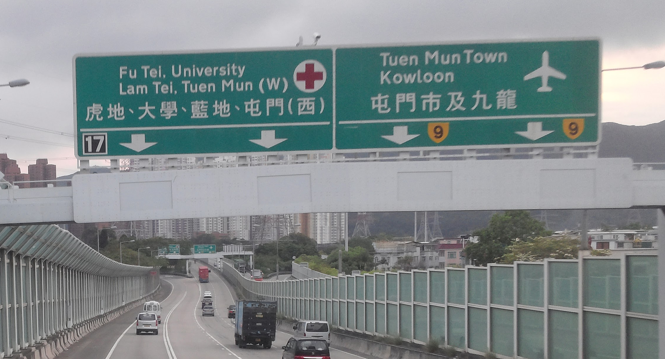 Road sign to tuen mun town, Hong Kong